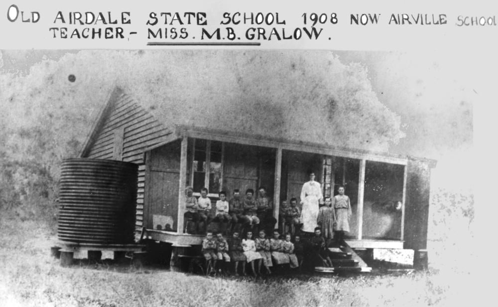 Teacher and students at Airville, 1908. Group portrait of the teacher, Miss M. B. Gralow, and students on the verandah of the Old Airdale State School, now Airville School.